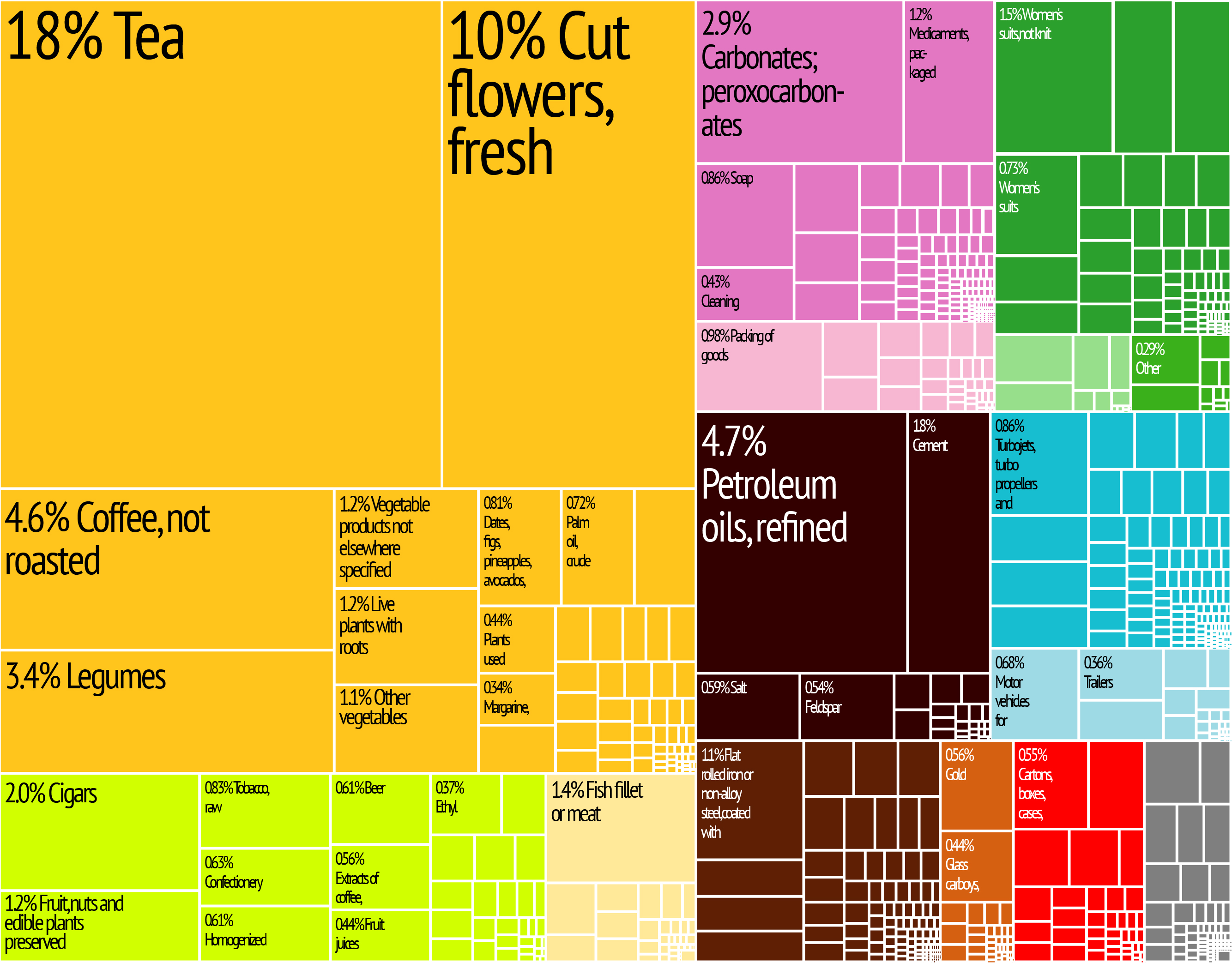 Kenya Export Treemap from MIT Harvard Economic Complexity Observatory